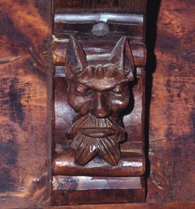 Particular of Sarriod de la Tour castle